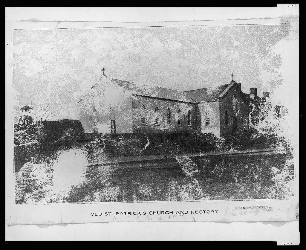 Photomechanical print of the second St. Patrick's Church and Rectory (dedicated in 1809) in Washington, D.C.